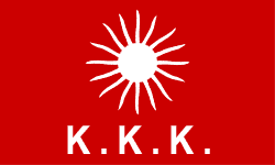 Flag of the Philippine Revolution: Flag of the Katipunan shown at Pugadlawin. It is a red flag with a white sun on top and the society's acronym, KKK, in white at the bottom.